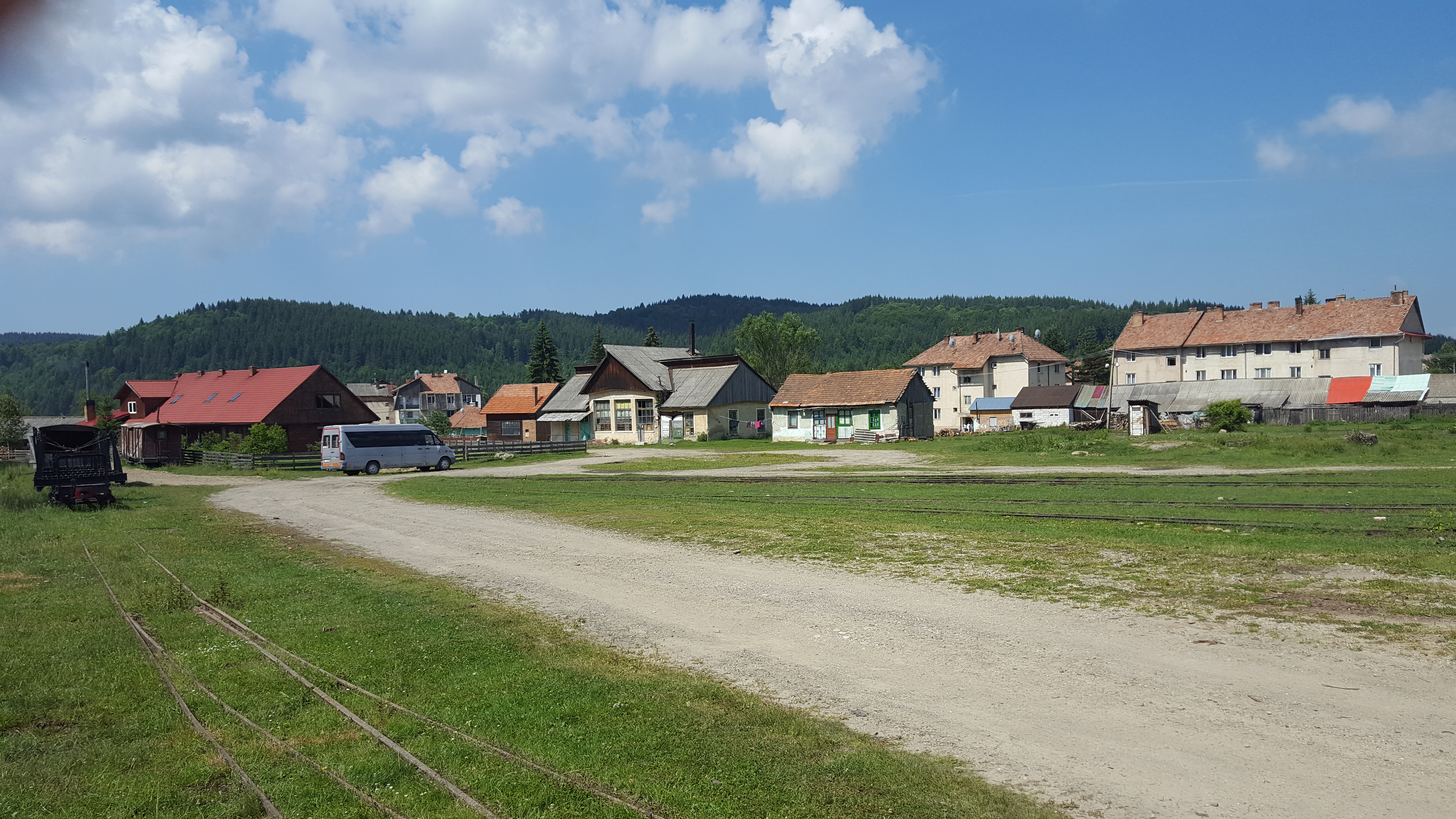 The plain of a narrow-gauge train station in Comandău, Romania, with residential houses in the background.